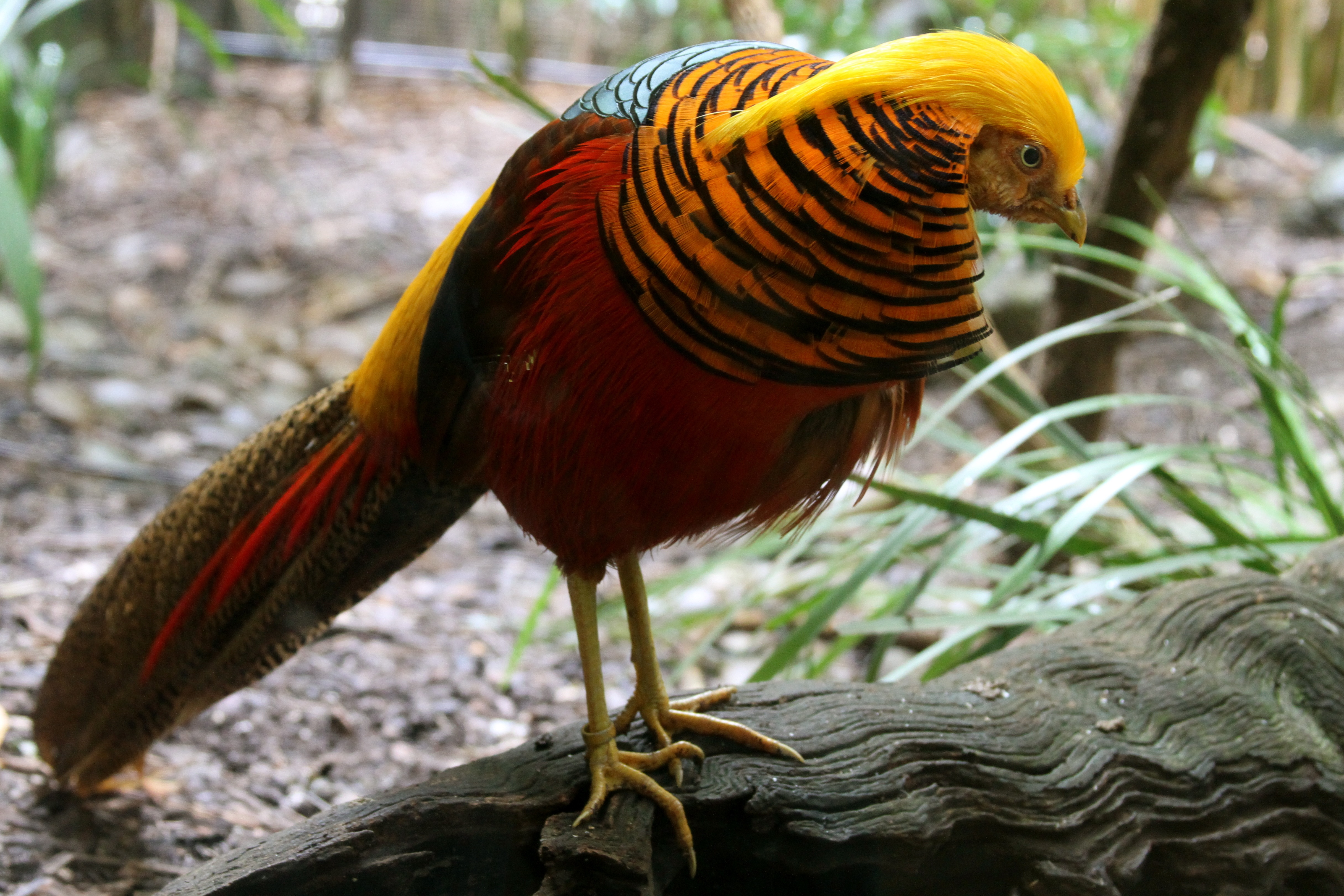 A Golden Pheasant at Melbourne Zoo, Australia.